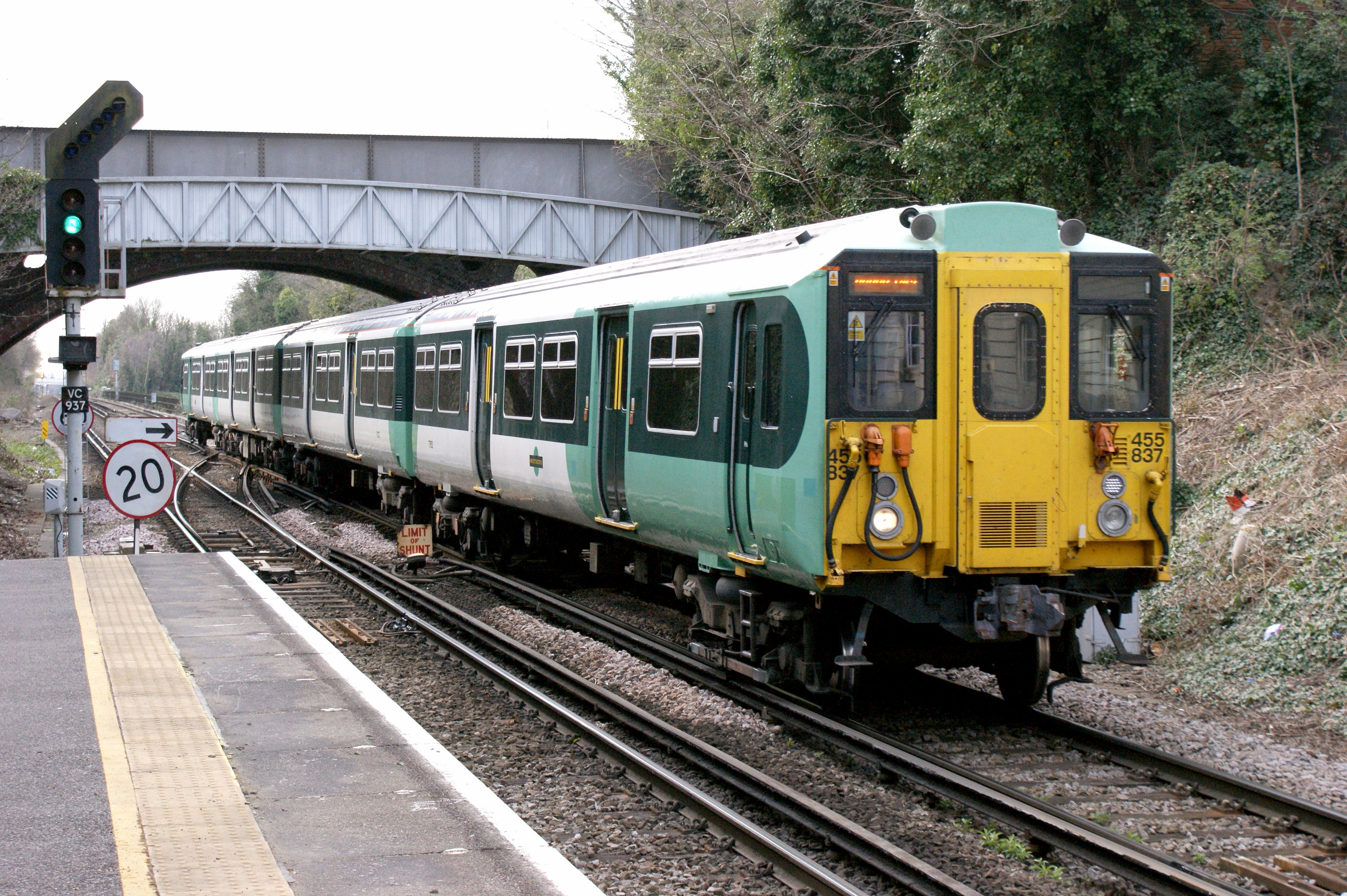 BR (York) Class 455/8 (1st Srs.) Standard Mk.III 750 v dc 3rd rail inner-suburban 4-car emu No.455 837 of Southern approaching Sutton on a Dorking - Waterloo service, 03/09.